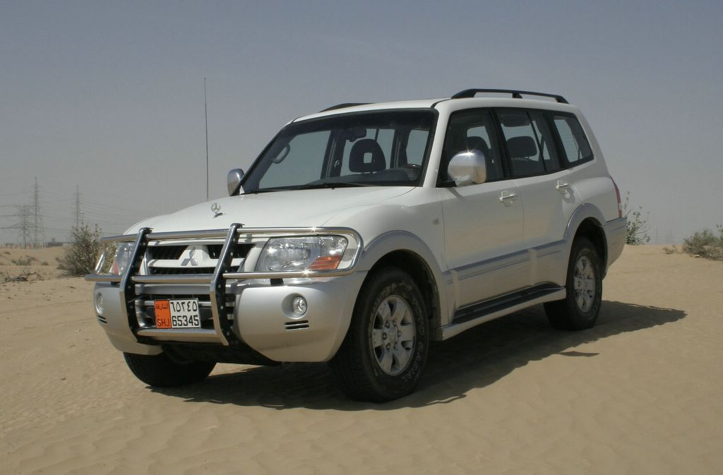 2004 Mitsubishi Pajero.